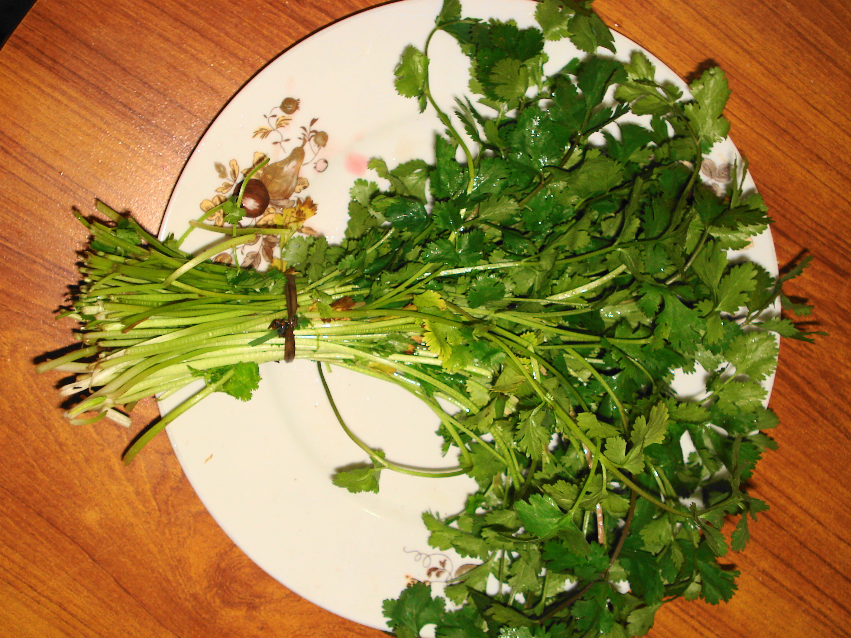 Coriander